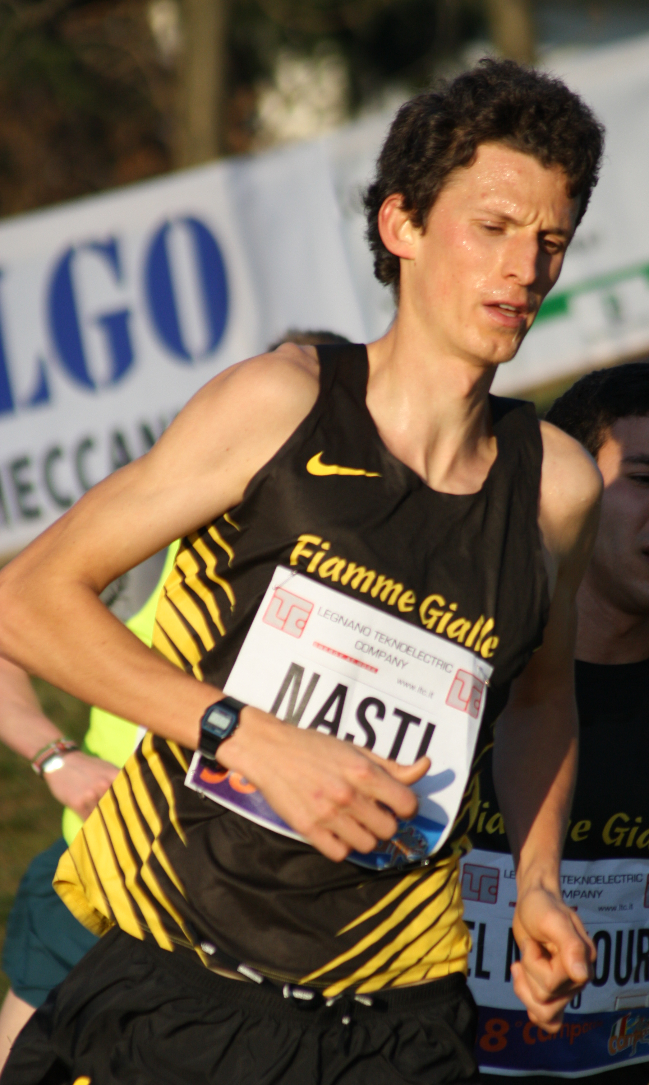 The Italian athlete Patrick Nasti during the 58th edition on the Campaccio.